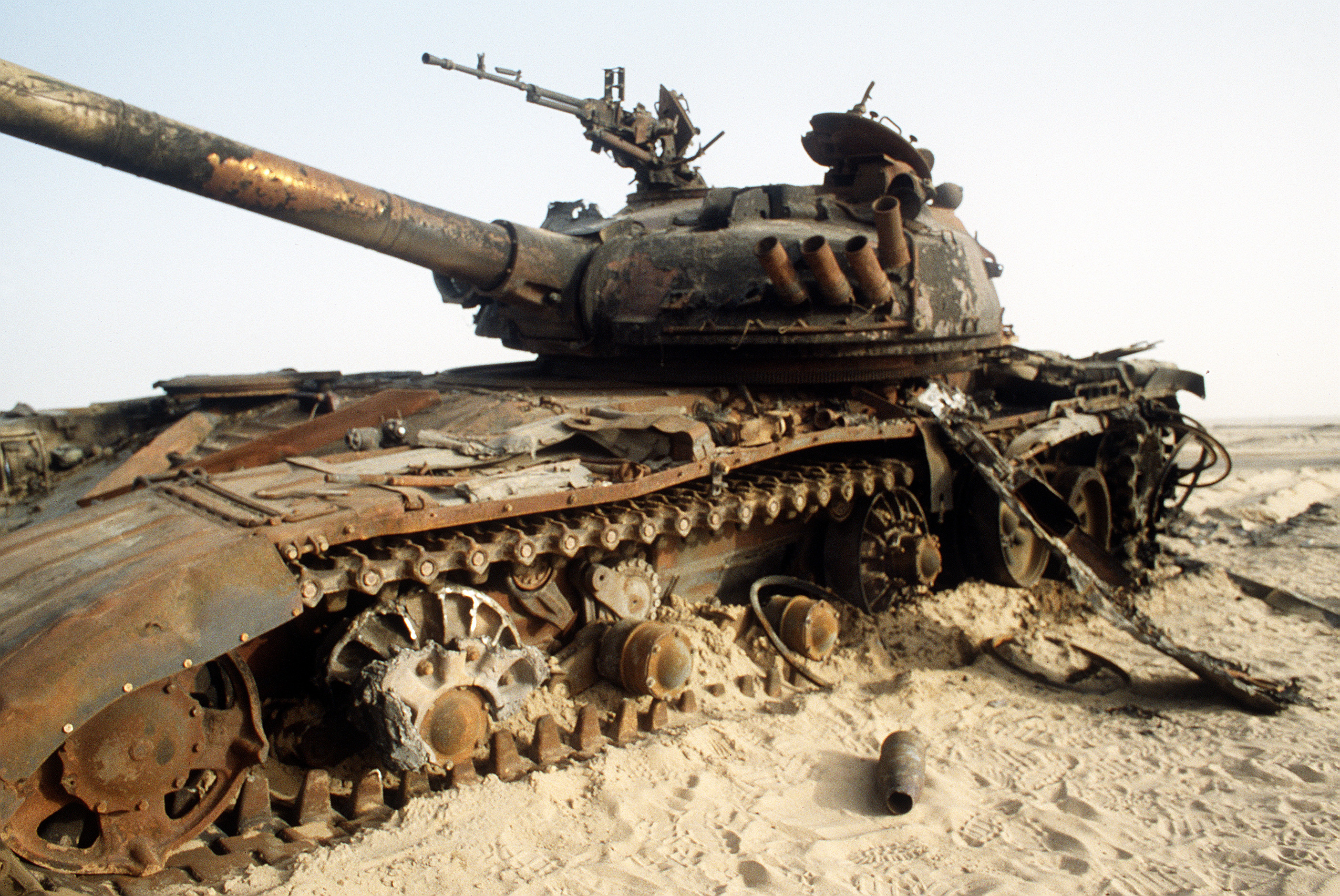 A destroyed Iraqi T-72 main battle tank sits in the desert in the wake of advancing coalition forces during Operation Desert Storm.